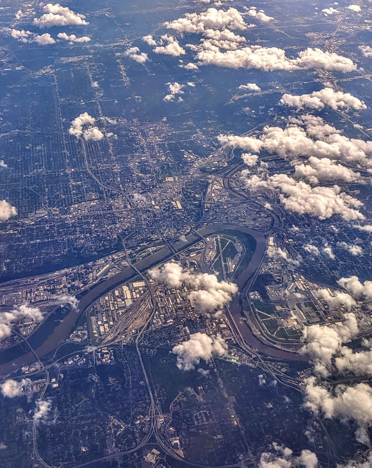 Aerial view from the north of Kansas City (Kansas and Missouri) where the Kansas River joins the Missouri River